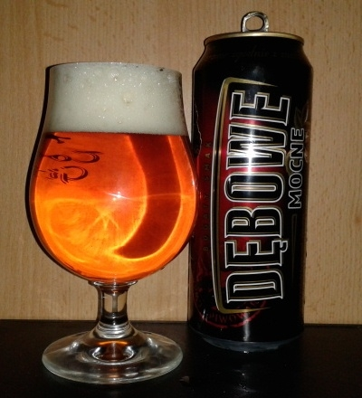 Dębowe Mocne (.50 liter can + unrelated glass); dark side of the can